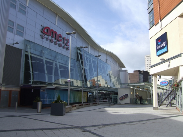 Broadway Plaza, Chad Valley, Birmingham, Great Britain. Cinema, hotel, bars and ten-pin bowling. The entertainment quarter along Broad Street extends up to Five Ways.